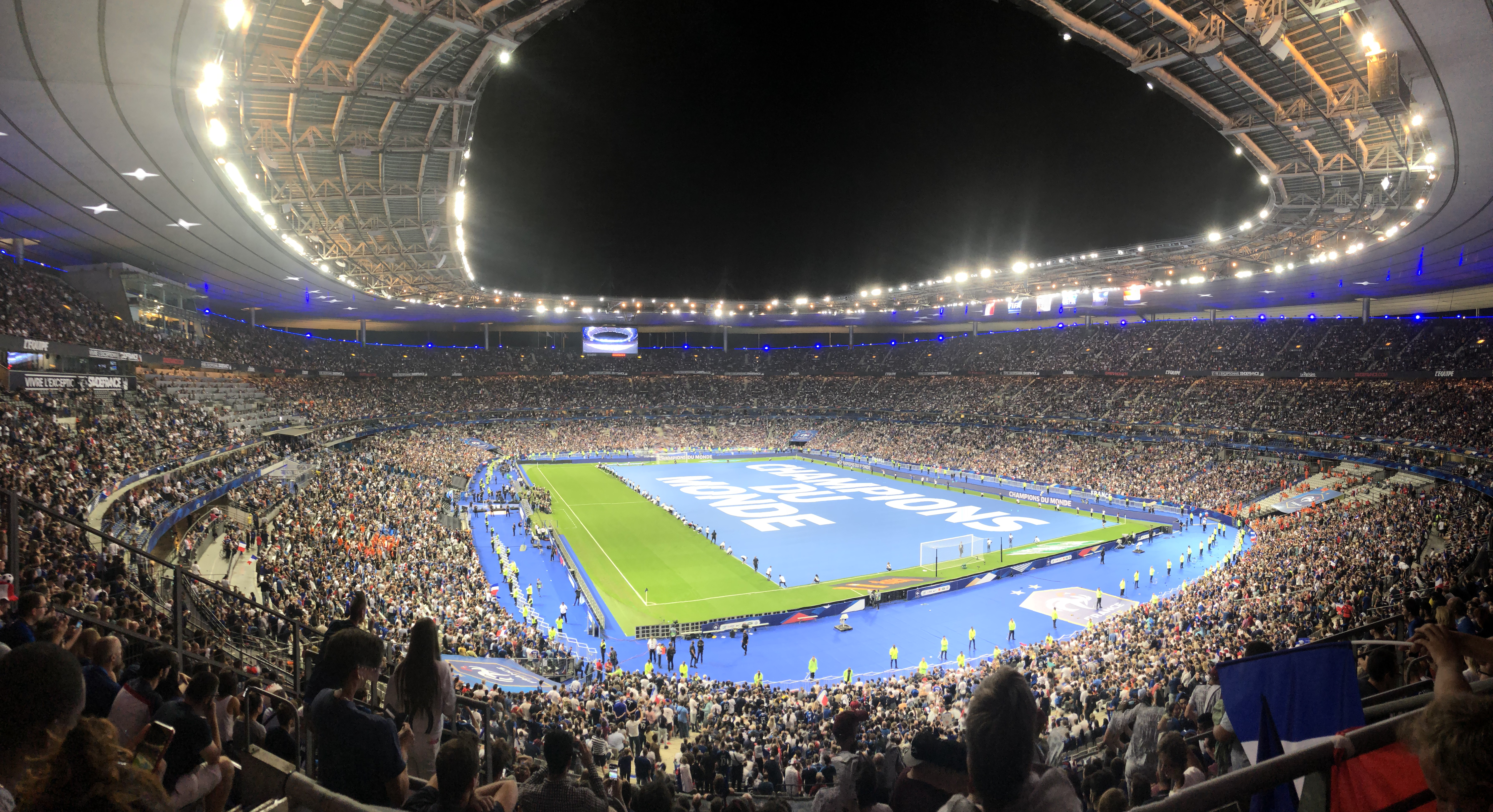 France vs Netherlands, Stade de France Nations League